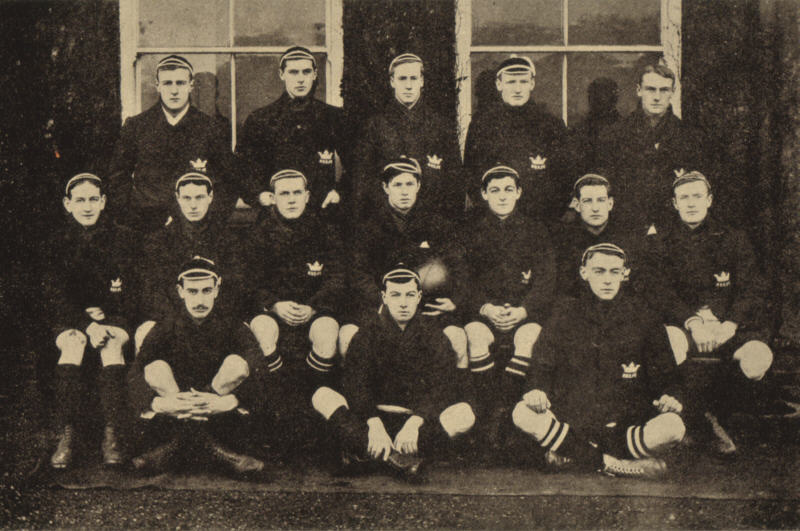 The Oxford University Rugby Football Club senior XV of 1901, Back Row (L-R): V.H.Cartright, G.S.J.F.Eberle, N.Kennedy, W.B.Odgers, D.D.Dobson. Sitting: S.H.Osbourne, E.J.Walton, J.E.Crabbie, F.Kershaw, R.C.Grellet, J.Strand-Jones. On Ground: A.J.Swanzy, H.F.Terry, J.E.Raphael.